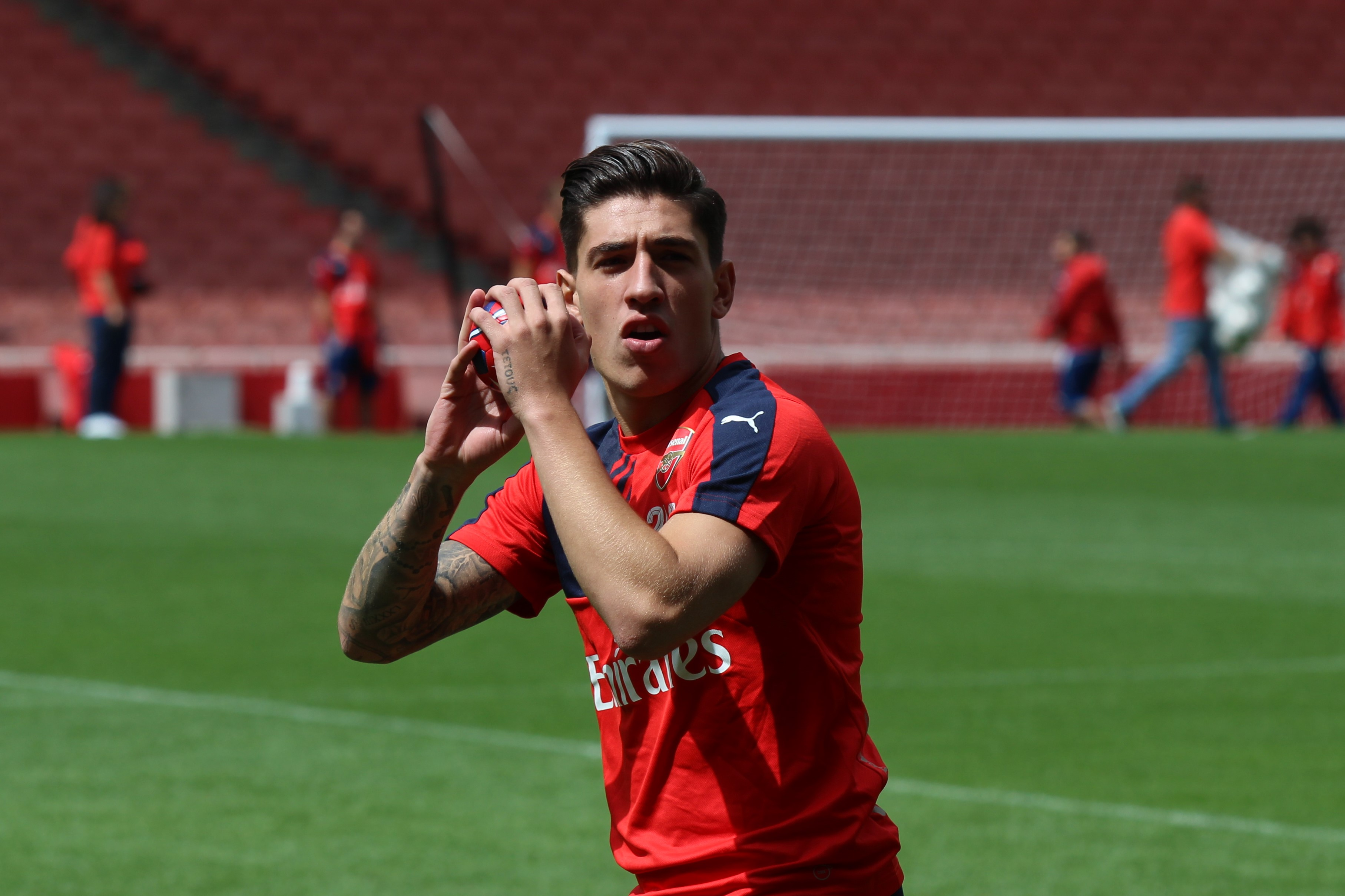 Hector Bellerin of Arsenal throws a ball into the crowd during the 2015 Arsenal Members' Day Open Training Session.